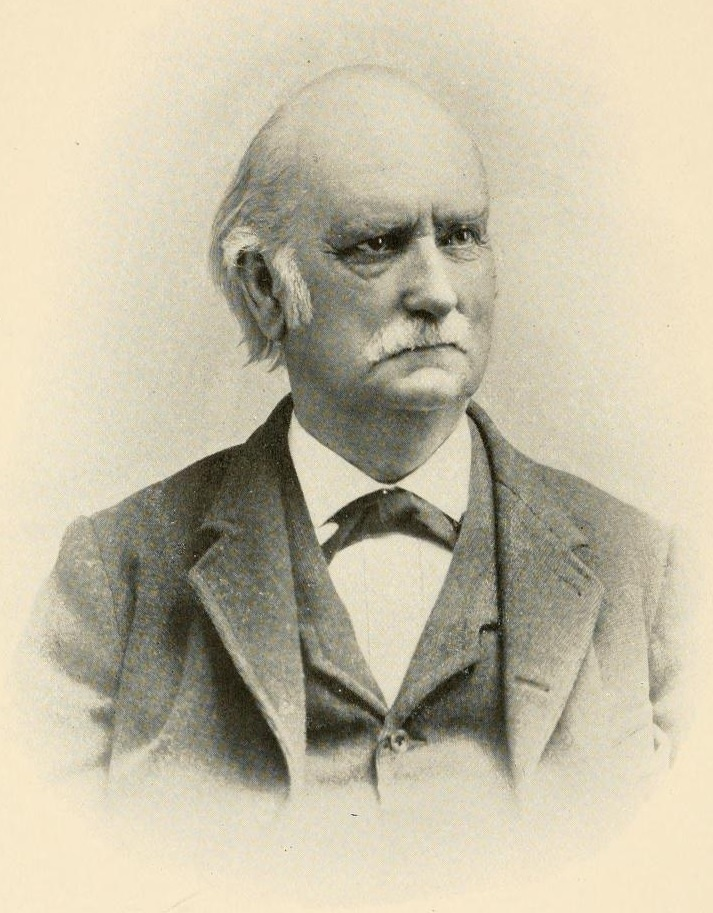 Nathaniel B. Smithers, Delaware Congressman